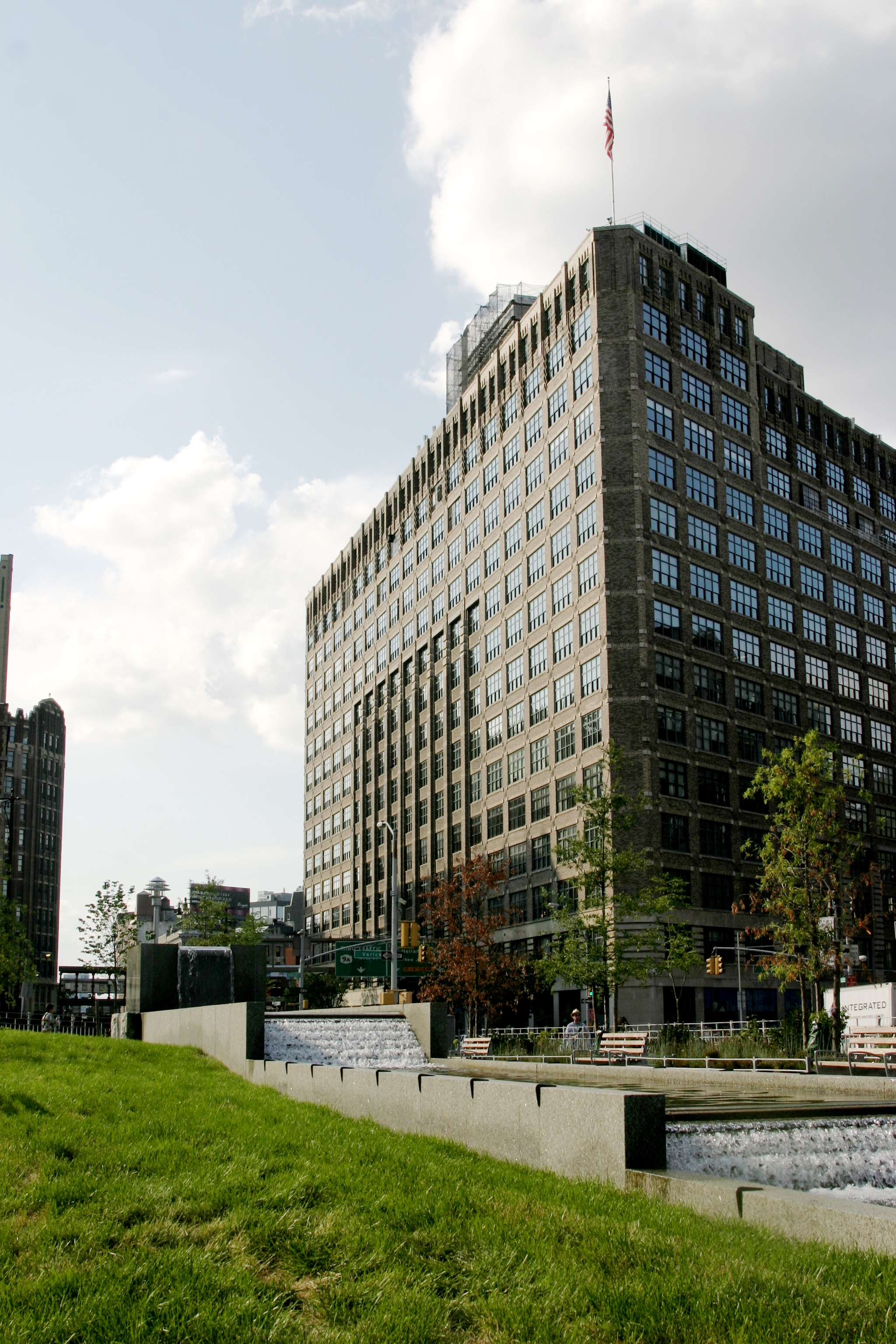 The Elyn Zimmerman designed fountain in Albert Capsouto Park, Lower Manhattan, New York. The One Hudson Square building at 75 Varick Street, designed by Ely Jacques Kahn and built c.1930, is in the background.